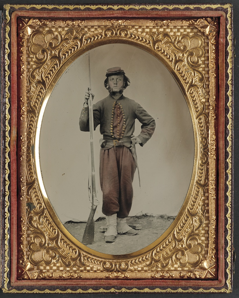 [Unidentified soldier in Union zouave uniform with bayoneted musket] [between 1861 and 1865] 1 photograph : quarter-plate tintype, hand-colored ; 11.1 x 9.5 cm (case) Notes: Title devised by Library staff. Case: Rinhart, no. 108. Deposit; Tom Liljenquist; 2011; (D 062). Forms part of: Liljenquist Family Collection of Civil War Photographs (Library of Congress). Published in: The illustrated history of American Civil War relics / by Stephen W. Sylvia & Michael J. O'Donnell. Orange, Va. : Moss Publications, c1978. Subjects: United States.--Army.--People--1860-1870. Soldiers--Union--1860-1870. Military uniforms--Union--1860-1870. Zouaves--1860-1870. Rifles--1860-1870. Bayonets--1860-1870. United States--History--Civil War, 1861-1865--Military personnel--Union. Format: Portrait photographs--1860-1870. Tintypes--Hand-colored--1860-1870. Repository: Library of Congress, Prints and Photographs Division, Washington, D.C. 20540 USA, Part Of: Ambrotype/Tintype filing series (Library of Congress) (DLC) 2010650518 Liljenquist Family collection (Library of Congress) (DLC) 2010650519 More information about this collection is available at Higher resolution image is available (Persistent URL): Call Number: AMB/TIN no. 2805